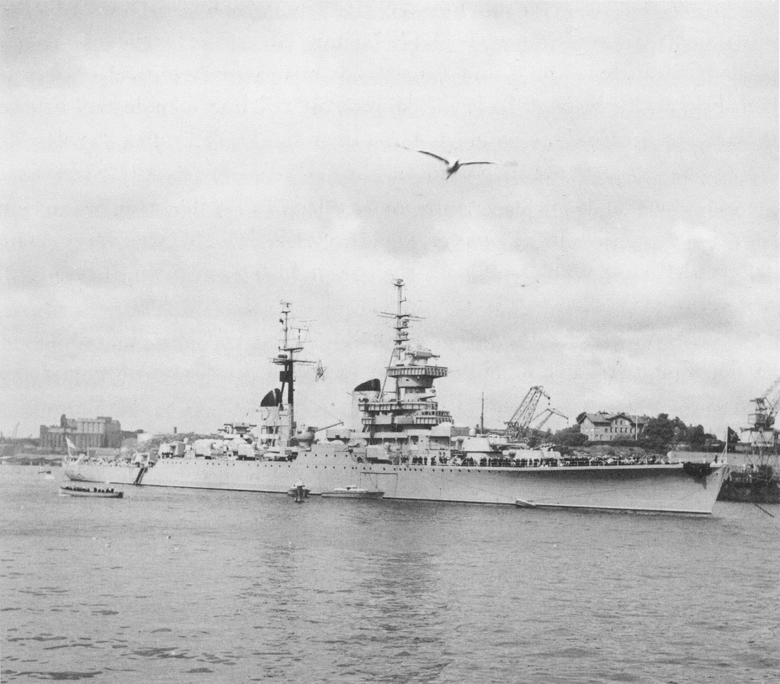 Soviet Cruiser Molotovsk visiting Gothenburg on August 4, 1956.